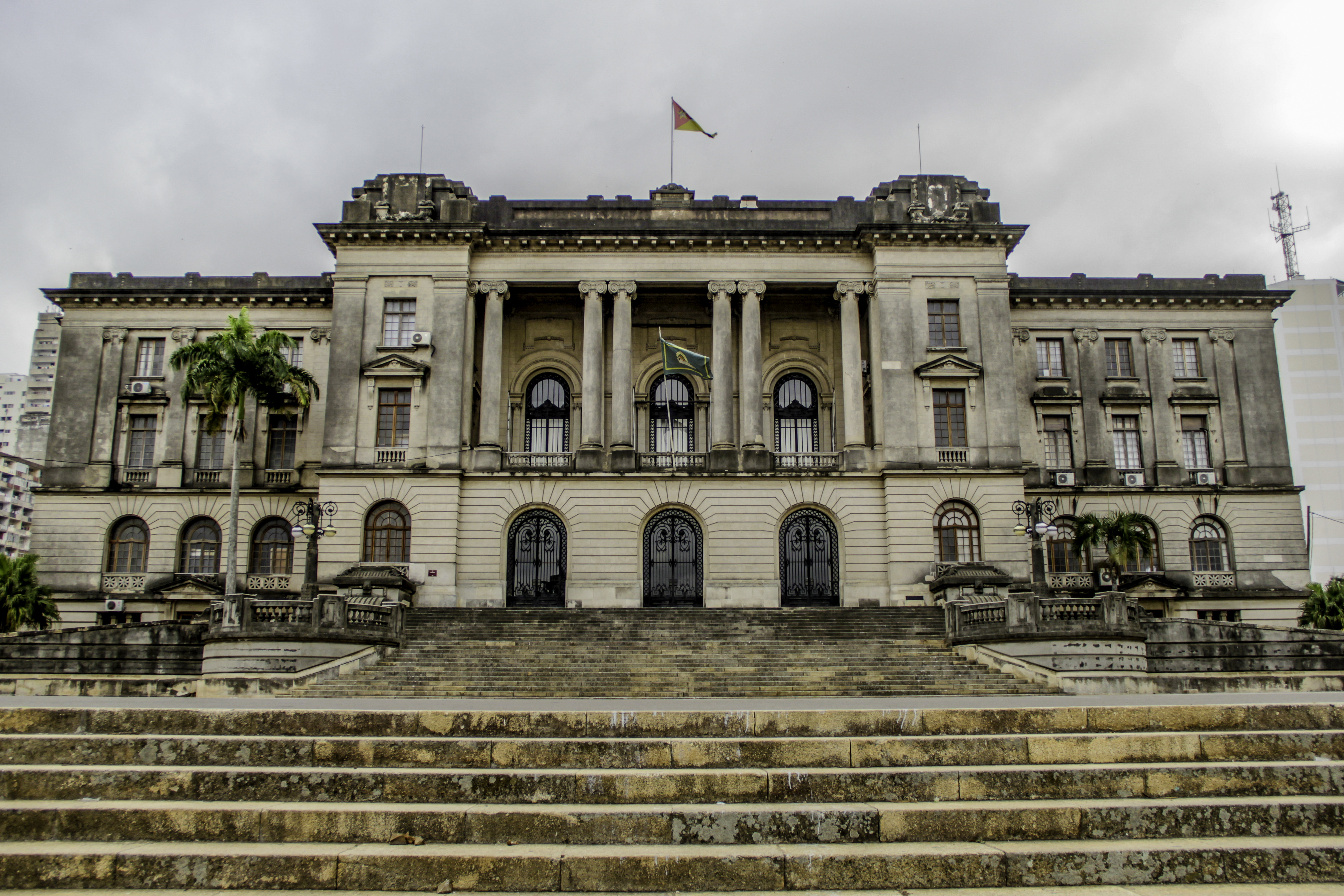 Town hall of Maputo, Mozambique